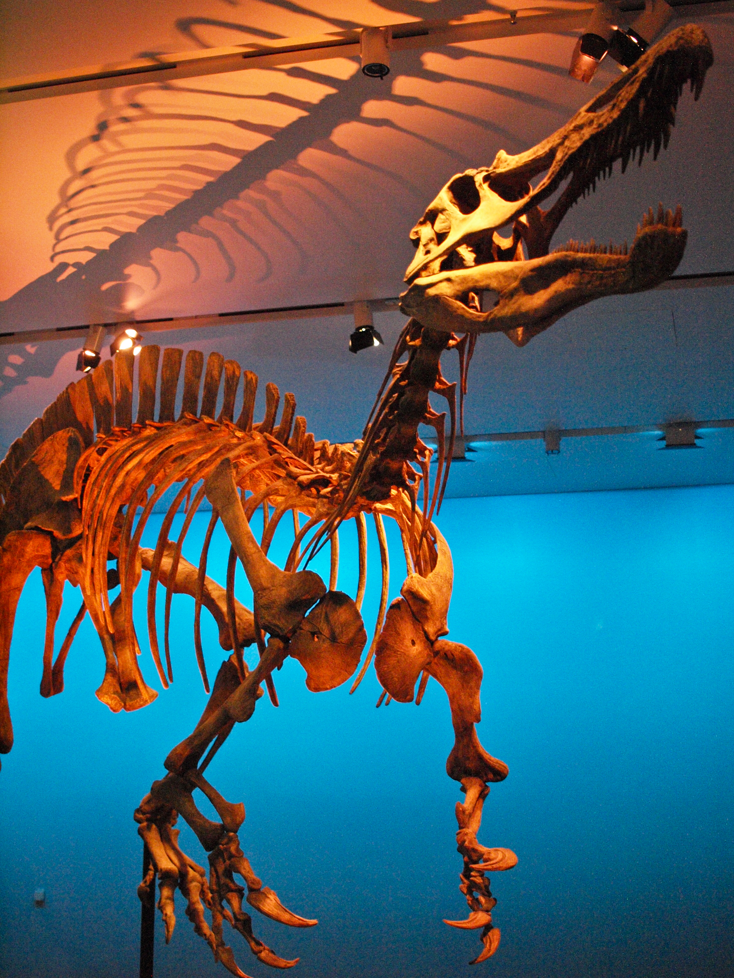 Suchomimus on Display at the Royal Ontario Museum